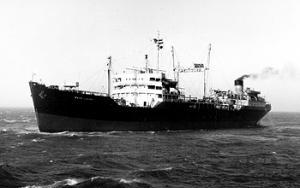 RFA WAVE LAIRD underway